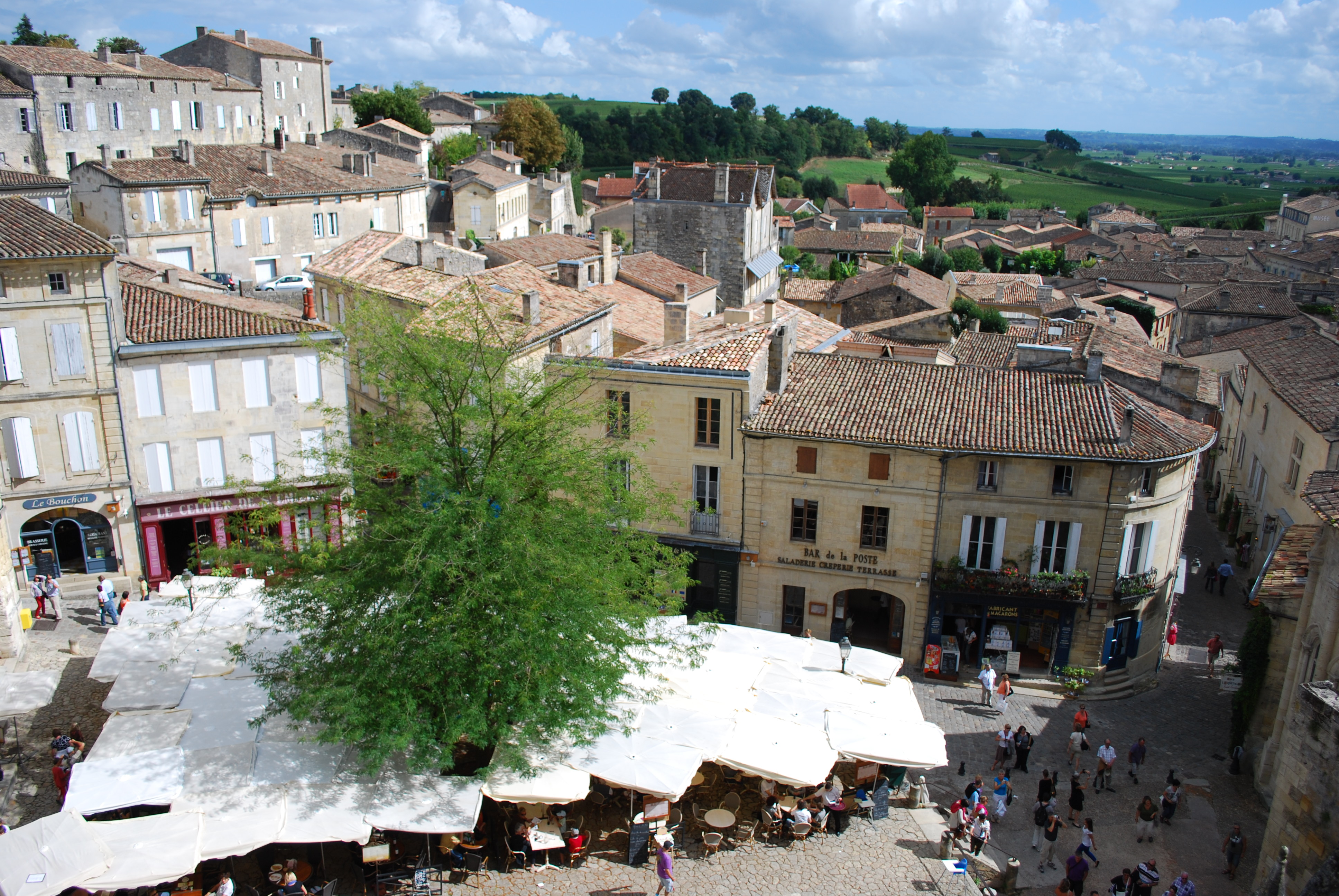 St. Emilion in Summer